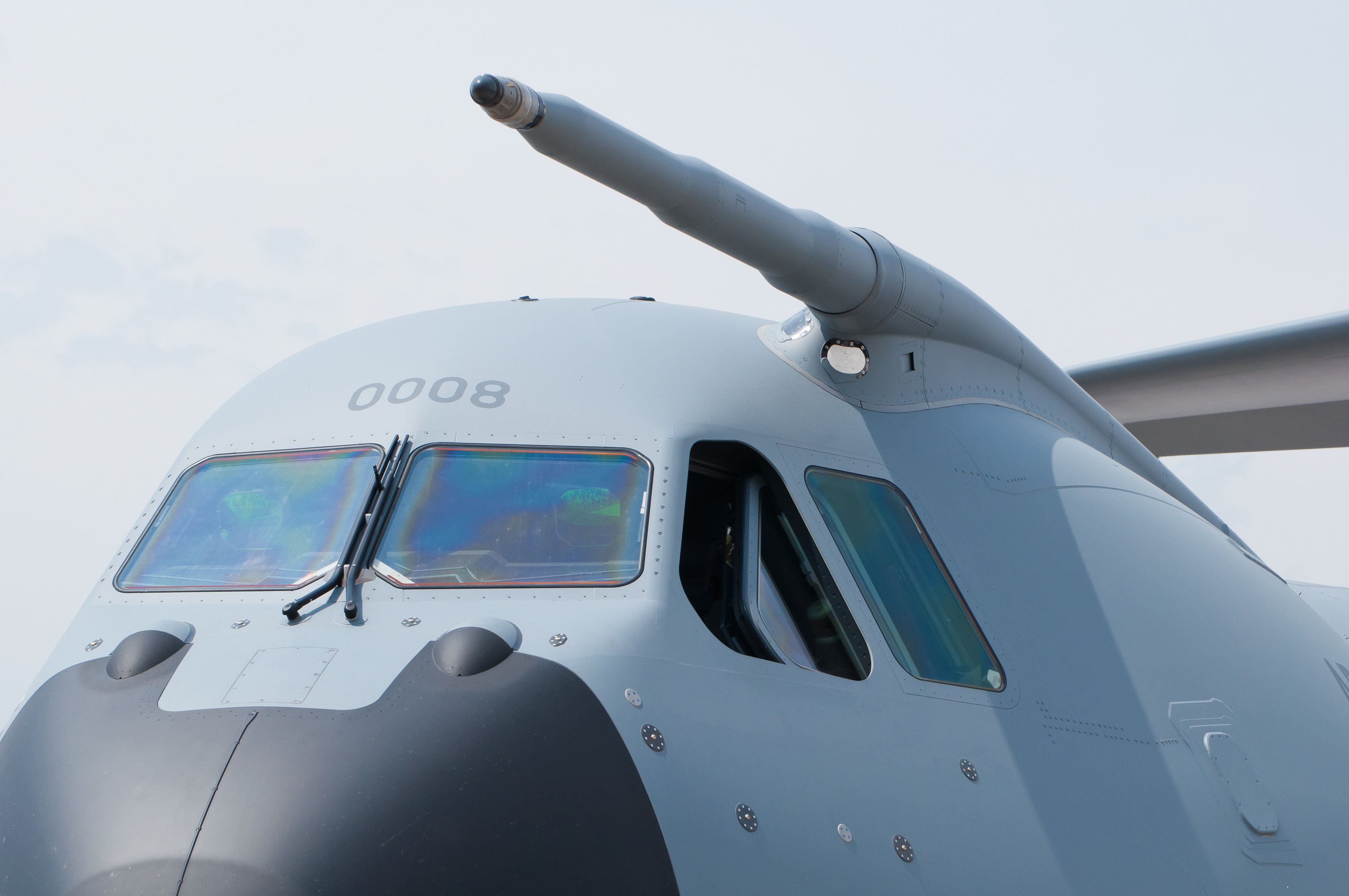 Aerial refueling probe and cockpit of an Armée de l'Air (French Air Force) Airbus A400M (reg. F-WWMQ, c/n 008) at Paris Air Show 2013.